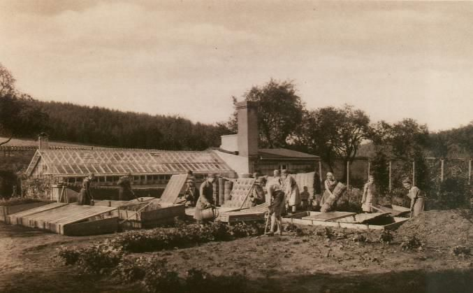 Reifensteiner Schule Gemüsegarten Beinrode 1930er